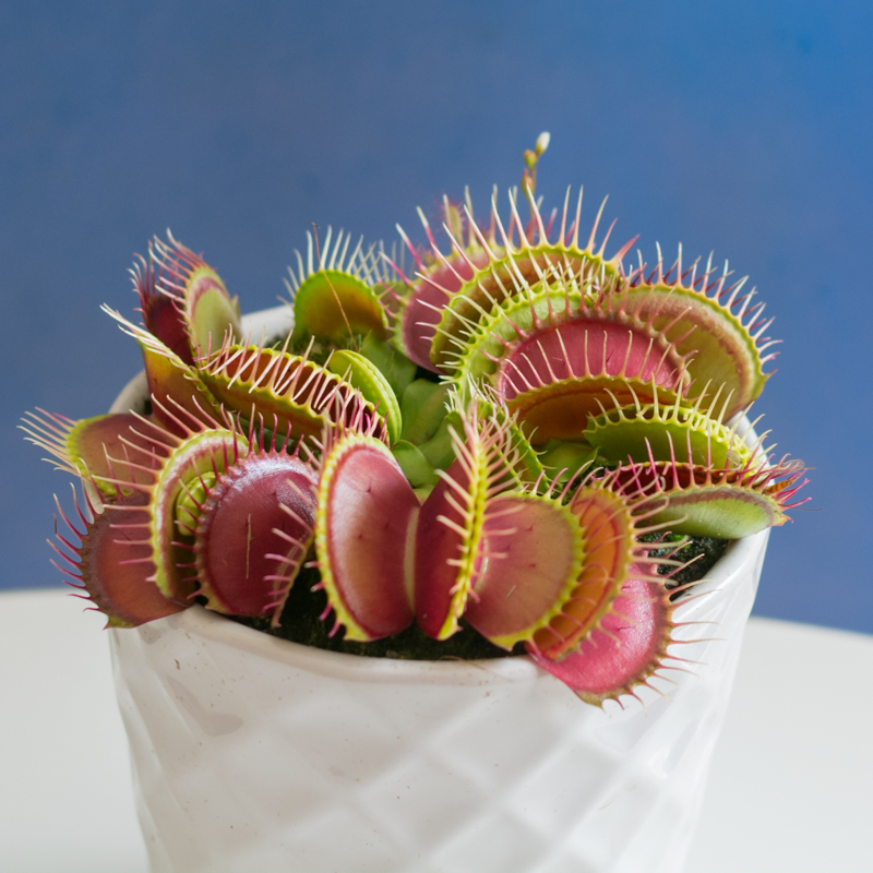 Adult B52 Venus Flytrap Cultivar - Growing in a six in pot